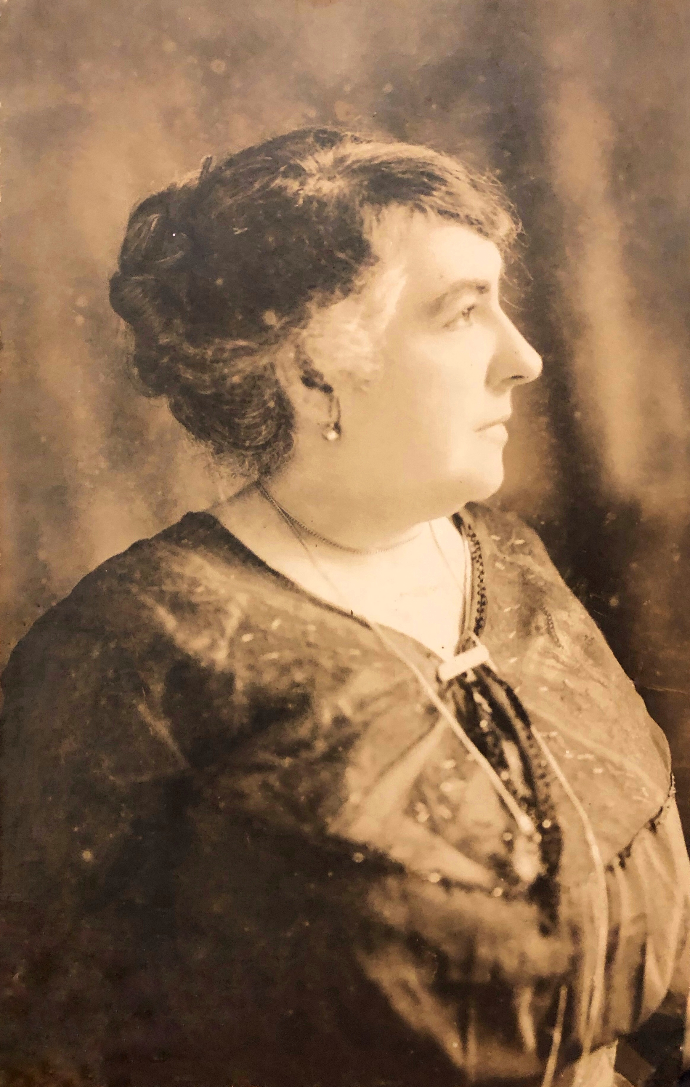 A portrait photo of Enriqueta García Martín y Cazañas.